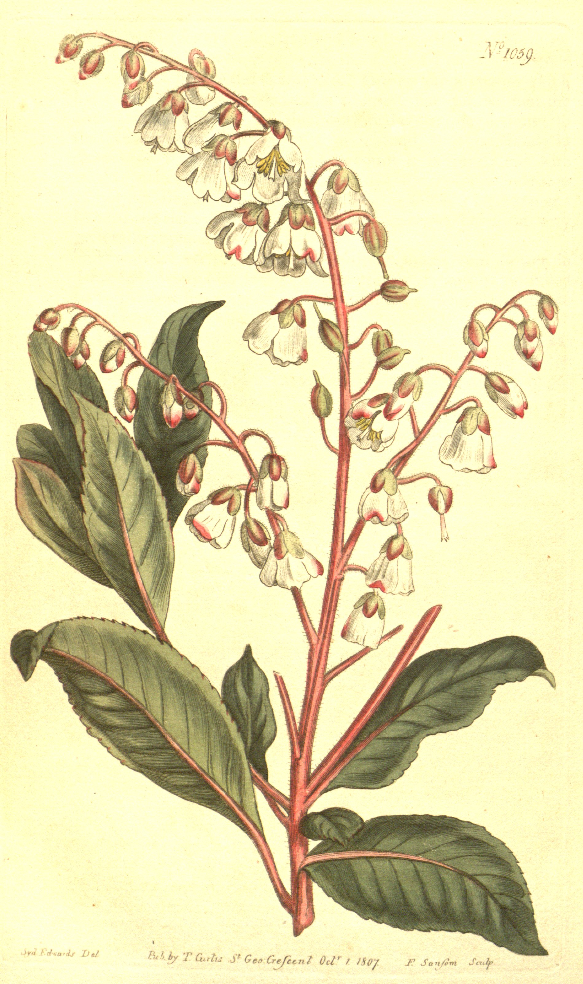 Clethra arborea